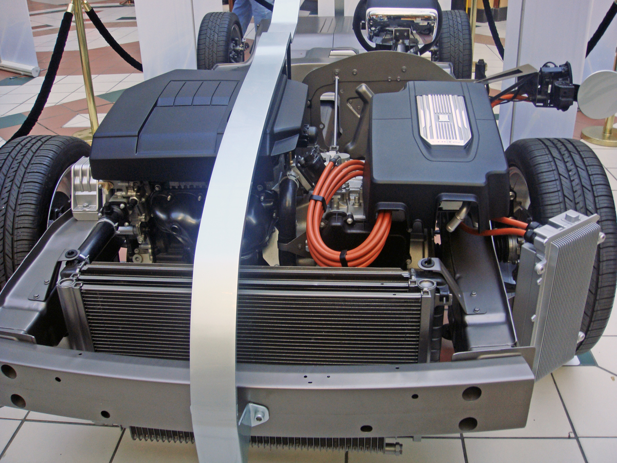 Engines of the Chevrolet Volt at a public exhibition, Washington D.C. Metro Area. The right-passenger side is the gasoline-powered Voltec engine used as a generator to recharge the batteries (range extender). The left-drivers side is the electric-powered engine used to move the vehicle.